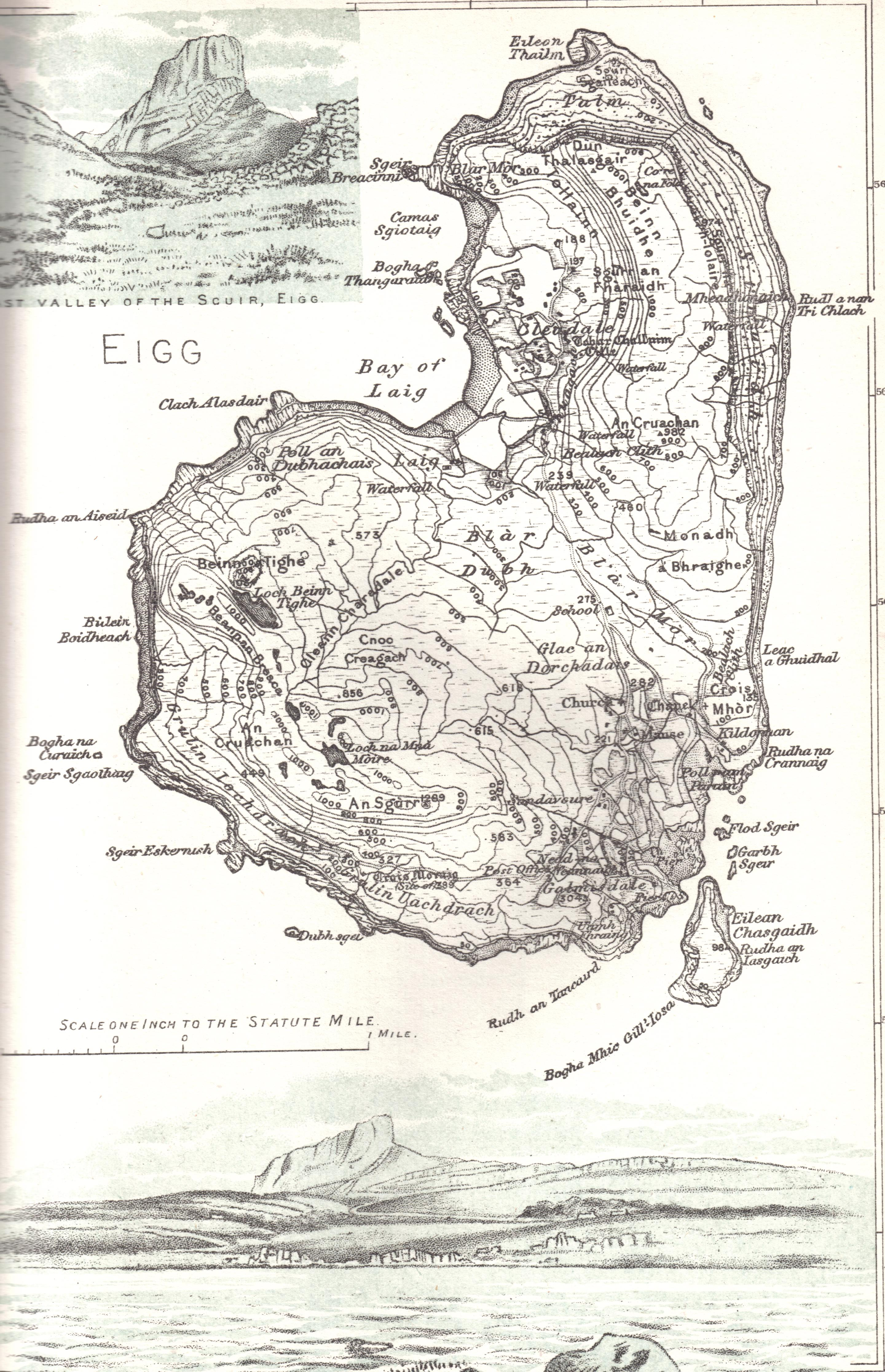 A Map and drawings of Eigg Island